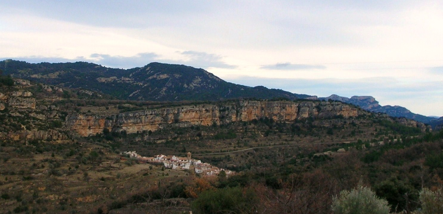 Vallibona village over the riu Cérvol seen from the west